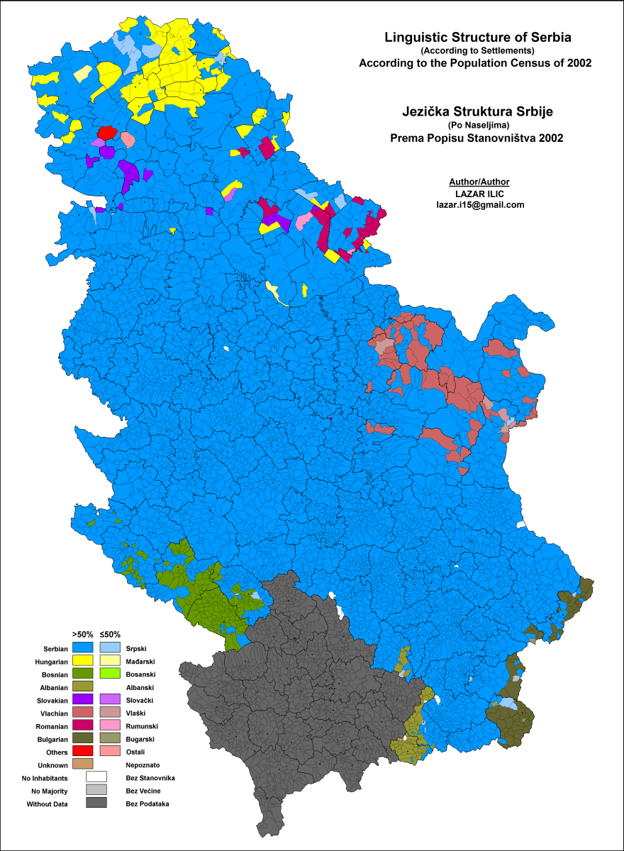 This is a linguistic map of Serbia according to the 2002 census. Српски (ћирилица): Ово је језичка карта Србије, према попису становништва 2002.